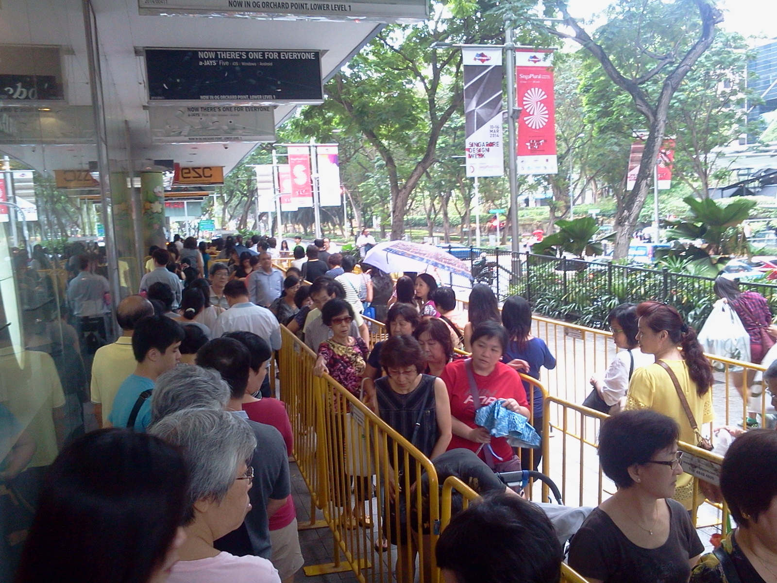 A shopping queue outside OG department store at Orchard Point, Singapore, during a private sale.